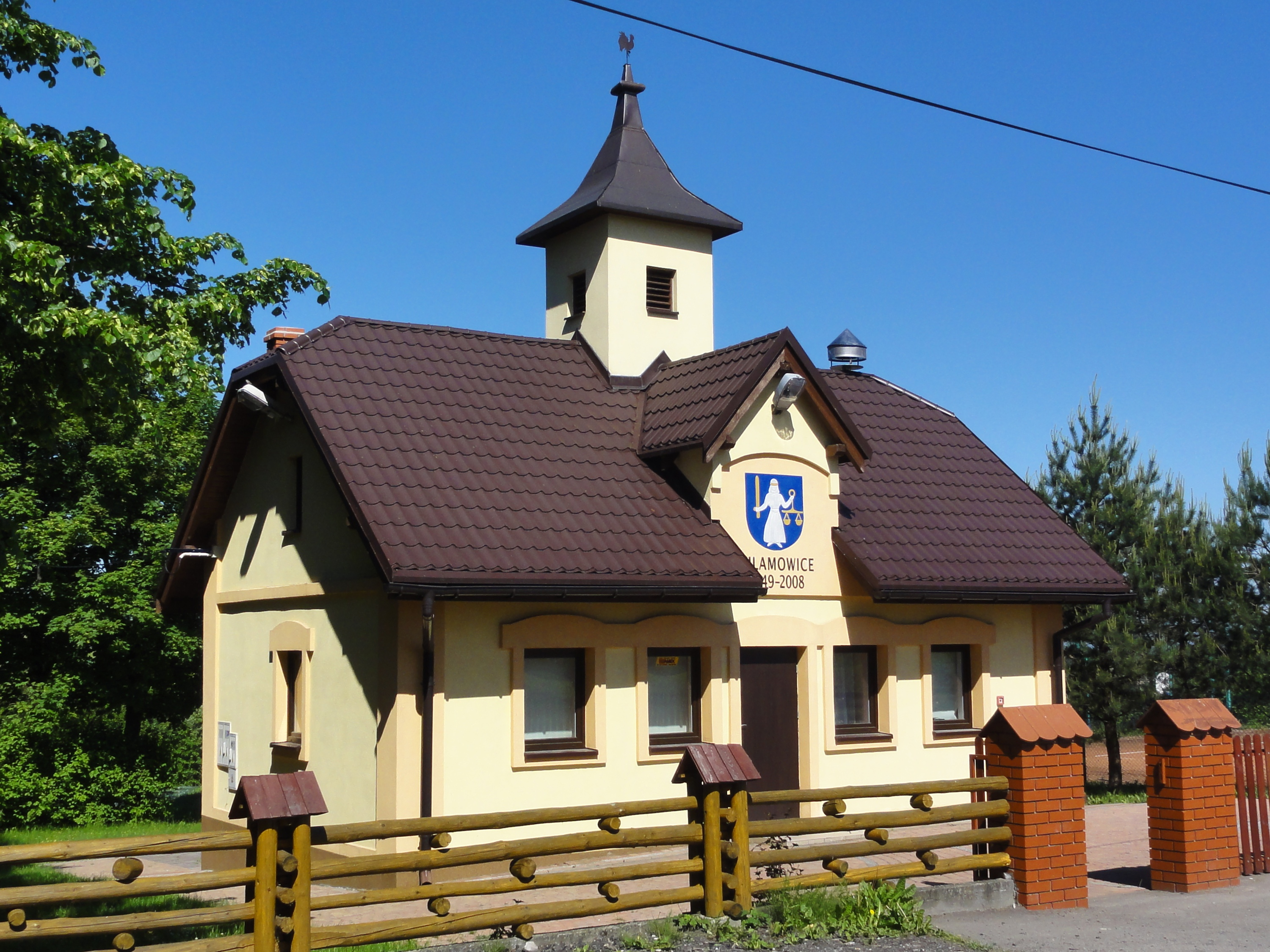 Fire station in Wilamowice